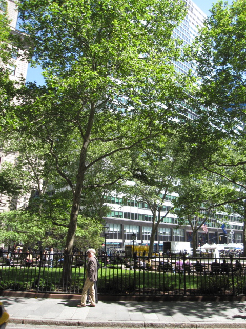 Bowling Green, New York